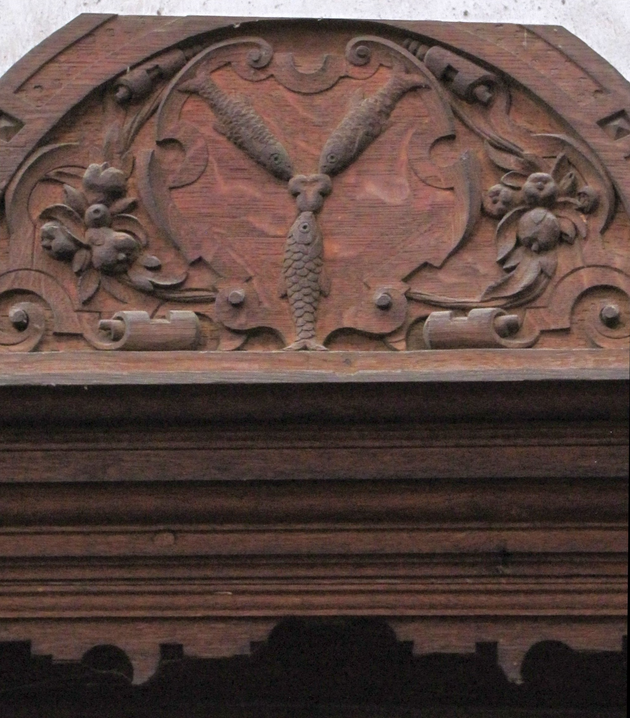 Coat of arms of the Witig/Witik family from a pew in St. Katharinen, Lübeck